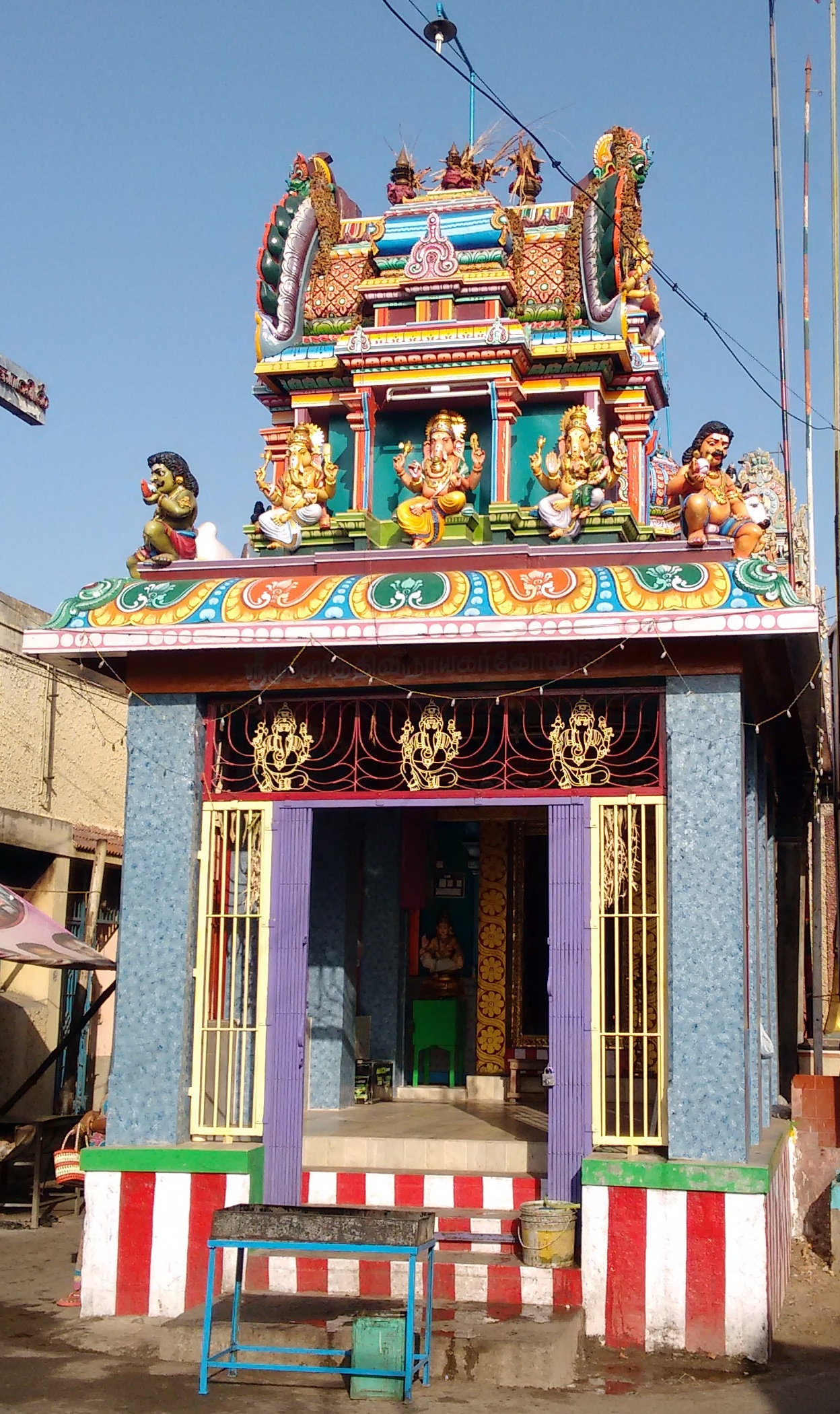 Kumbakonam Mummurti vinayakar temple கும்பகோணம்மும்மூர்த்திவிநாயகர்கோயில்